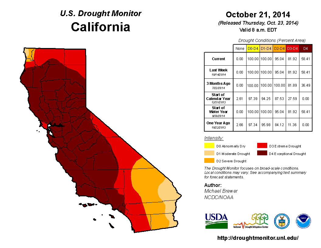 Status of drought in California, October 21, 2014. From the National Drought Monitor map archive, Shows "exceptional drought" over 58% of the state.